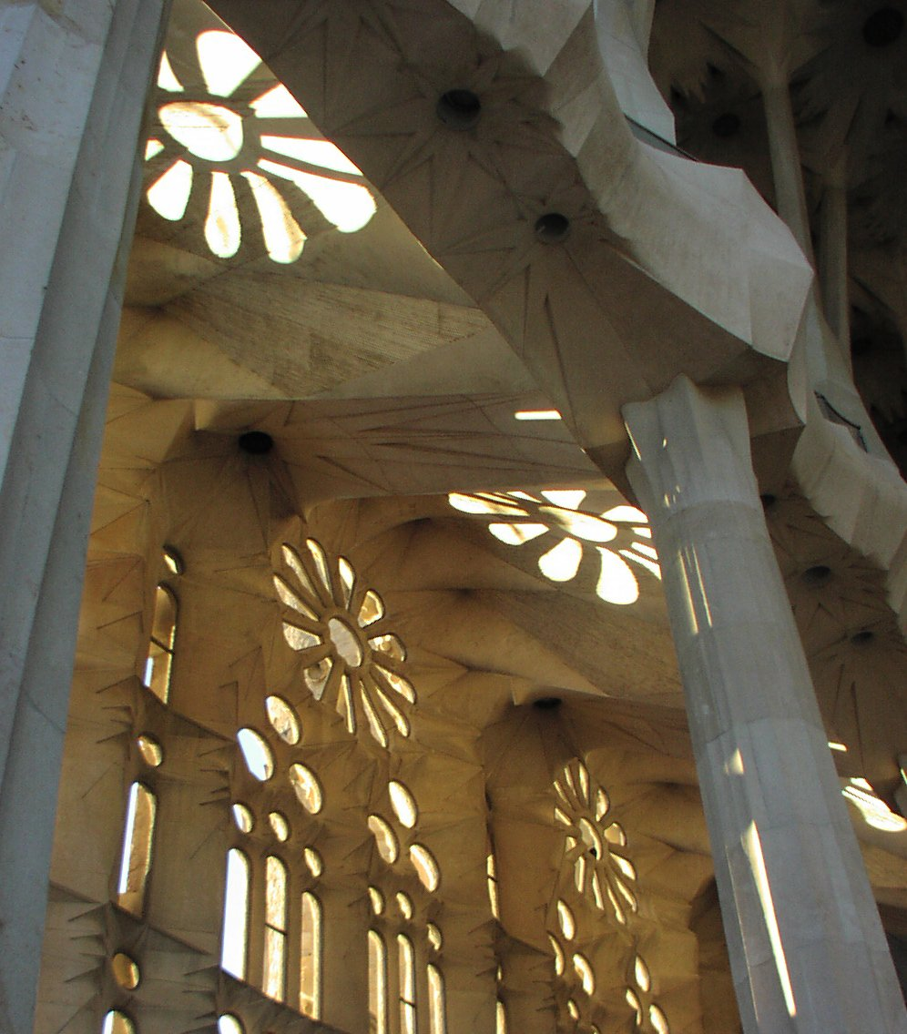 See this photo in Google Maps